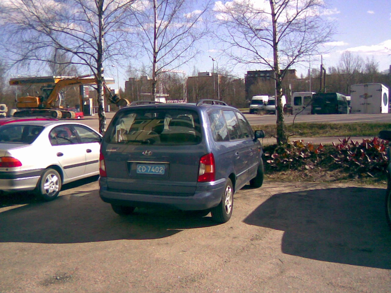 Car in Finland with diplomatic car plates